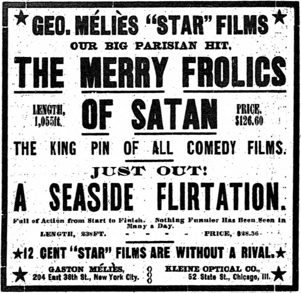 Newspaper advertisement for Georges Méliès's films The Merry Frolics of Satan and A Seaside Flirtation.